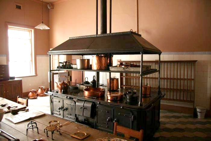 Kitchen in Sammy Marks' mansion near Pretoria, South Africa